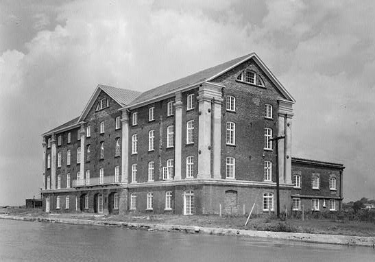 West Point Rice Mill, Ashley River, Near Calhoun Street, Charleston (Charleston County, South Carolina) - cropped